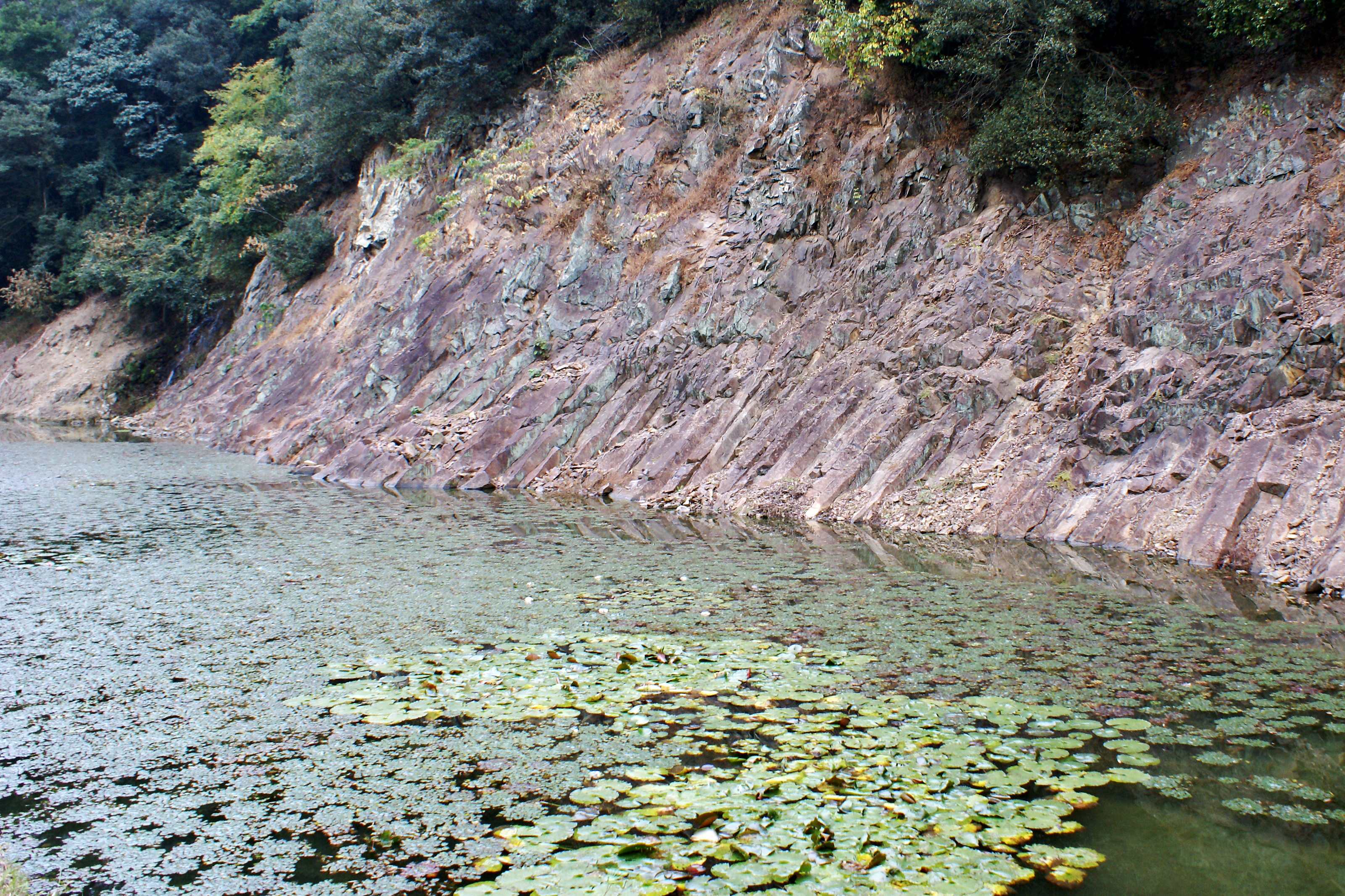 Ritsurin Garden in Takamatsu, Kagawa Prefecture, Japan